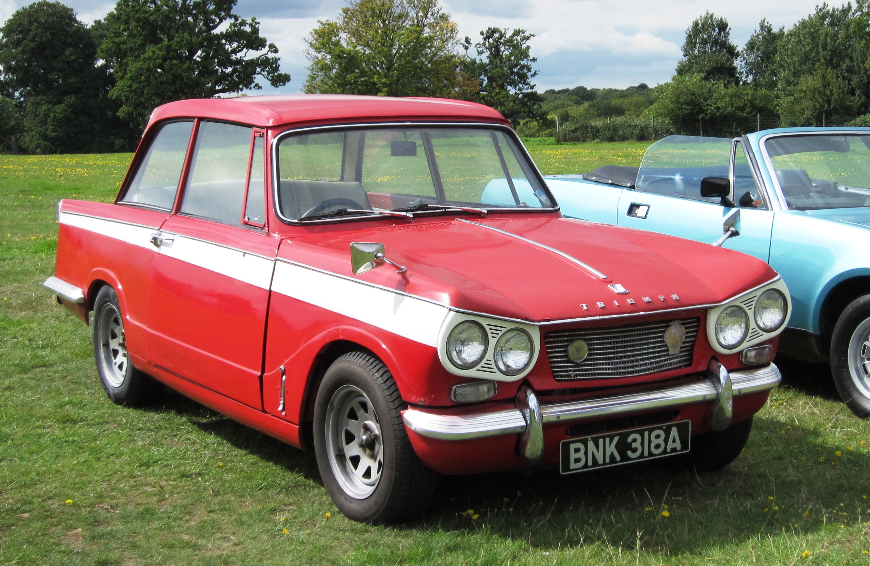 Triumph Vitesse 1600 at Knebworth classic car show